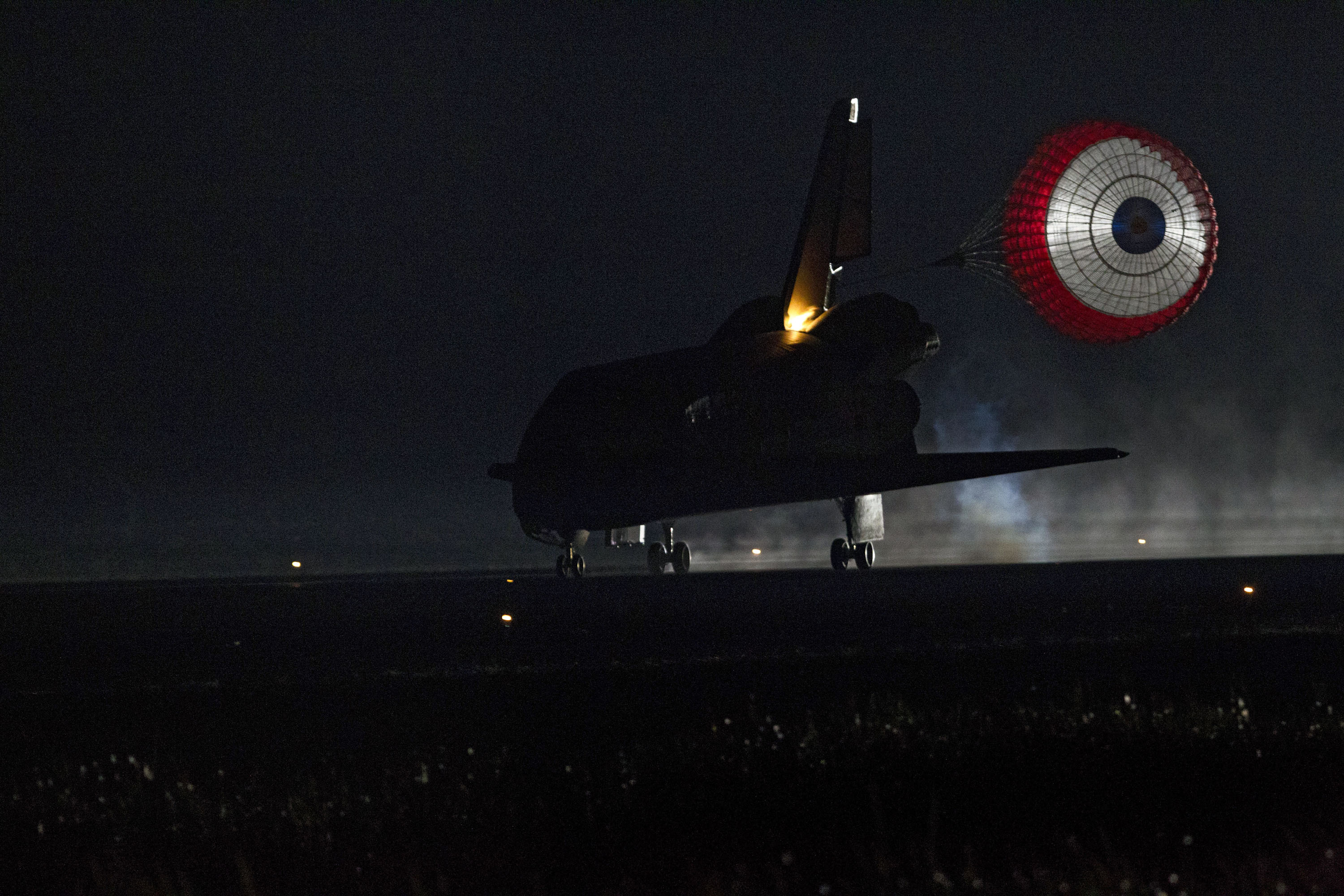 CAPE CANAVERAL, Fla. – Xenon lights illuminate space shuttle Endeavour's unfurled drag chute as the vehicle rolls to a stop on the Shuttle Landing Facility's Runway 15 at NASA's Kennedy Space Center in Florida for the final time. Main gear touchdown was at 2:34:51 a.m. EDT, followed by nose gear touchdown at 2:35:04 a.m., and wheelstop at 2:35:36 a.m. On board are STS-134 Commander Mark Kelly, Pilot Greg H. Johnson, and Mission Specialists Mike Fincke, Drew Feustel, Greg Chamitoff and the European Space Agency's Roberto Vittori. STS-134 delivered the Alpha Magnetic Spectrometer-2 (AMS) and the Express Logistics Carrier-3 (ELC-3) to the International Space Station. AMS will help researchers understand the origin of the universe and search for evidence of dark matter, strange matter and antimatter from the station. ELC-3 carried spare parts that will sustain station operations once the shuttles are retired from service. STS-134 was the 25th and final flight for Endeavour, which has spent 299 days in space, orbited Earth 4,671 times and traveled 122,883,151 miles.